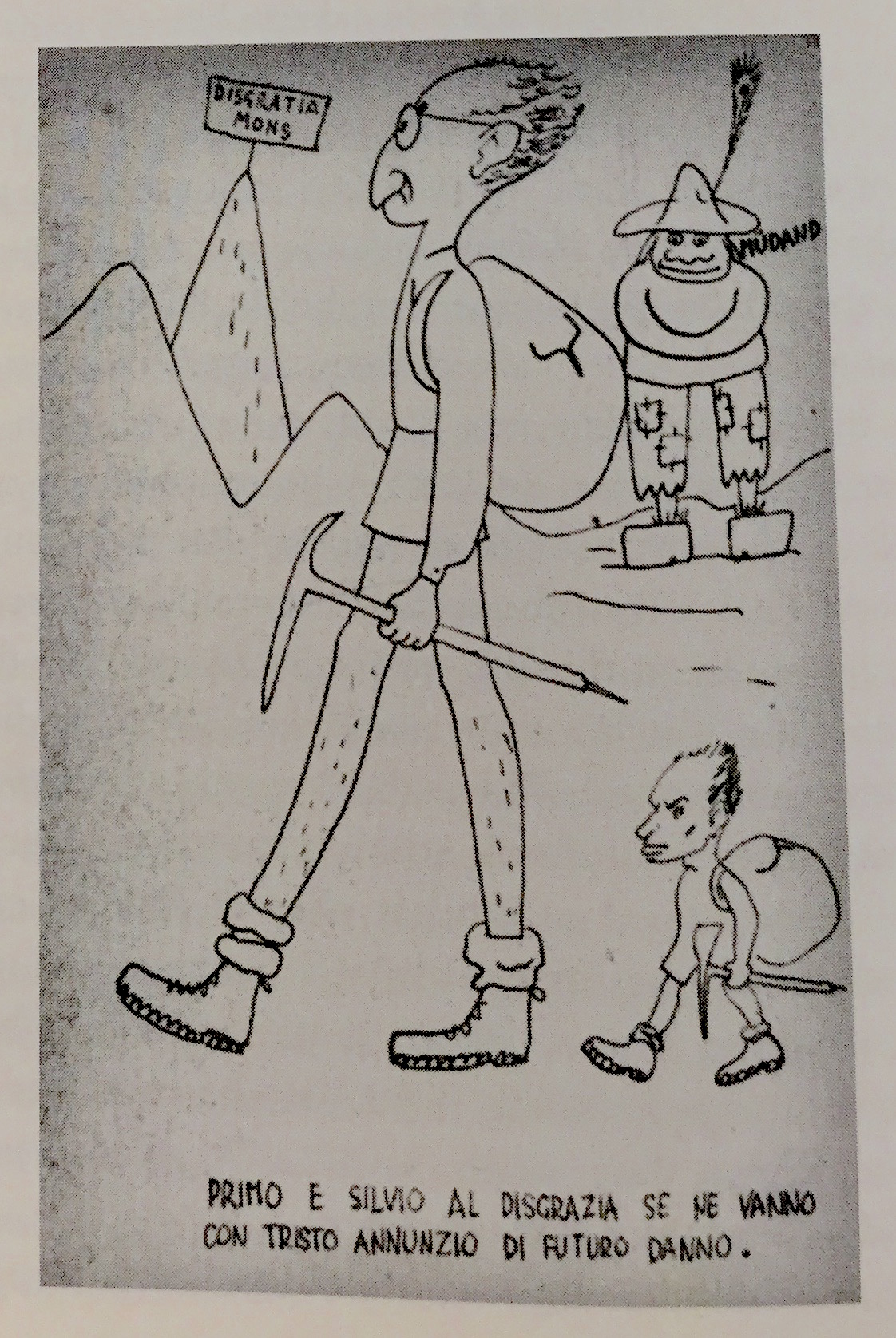 Sketch by Eugenio Gentili Tedeschi showing Tedeschi, trailing behind his friend Primo Levi, as they set out on a mountain climbing holiday.